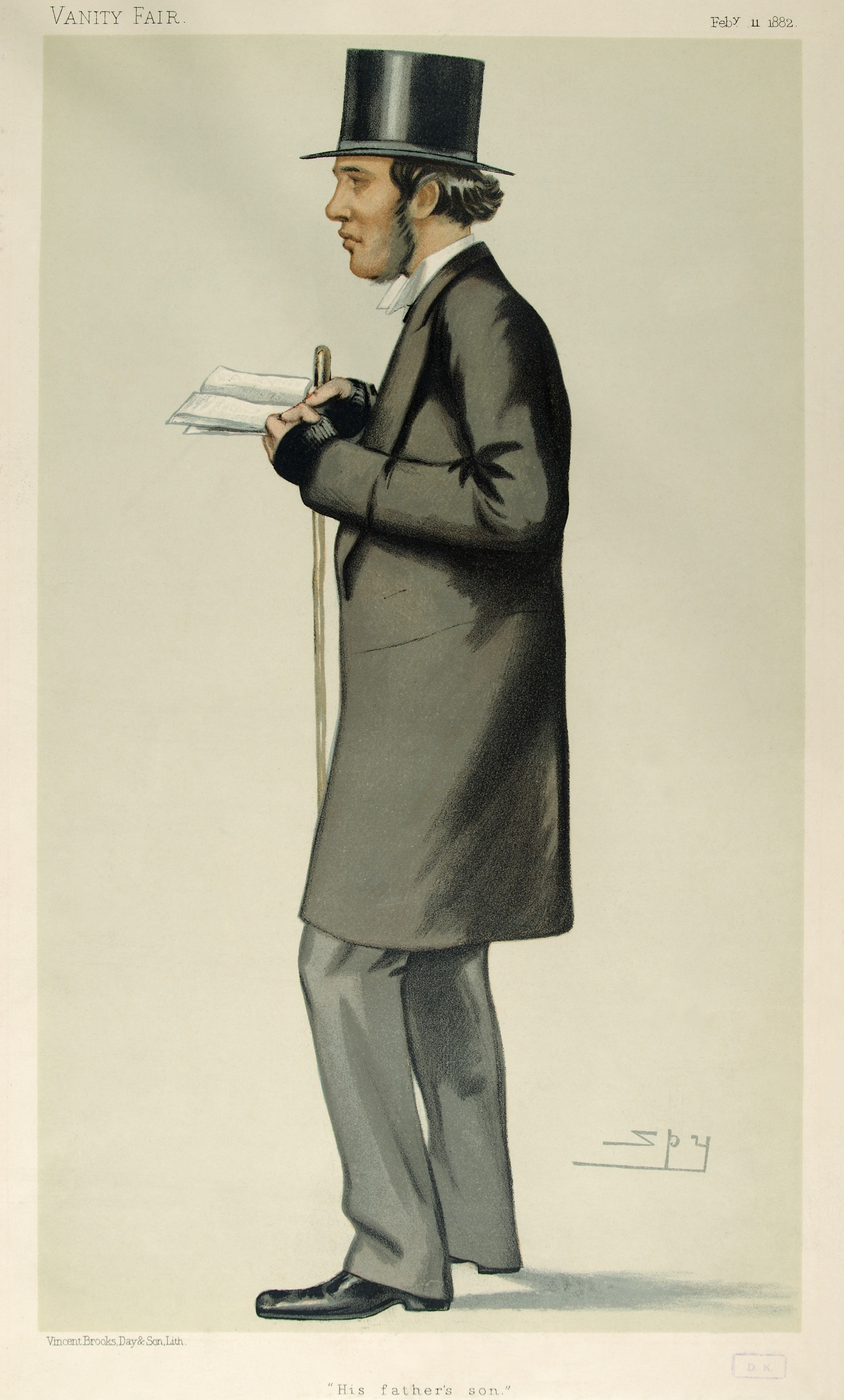 Statesmen No.389: Caricature of Mr William Henry Gladstone MP. Caption reads: "His father's son"